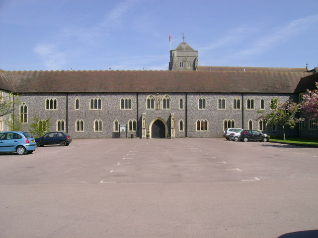 Hurstpierpoint College, front entrance, near to Hurstpierpoint, West Sussex, Great Britain.